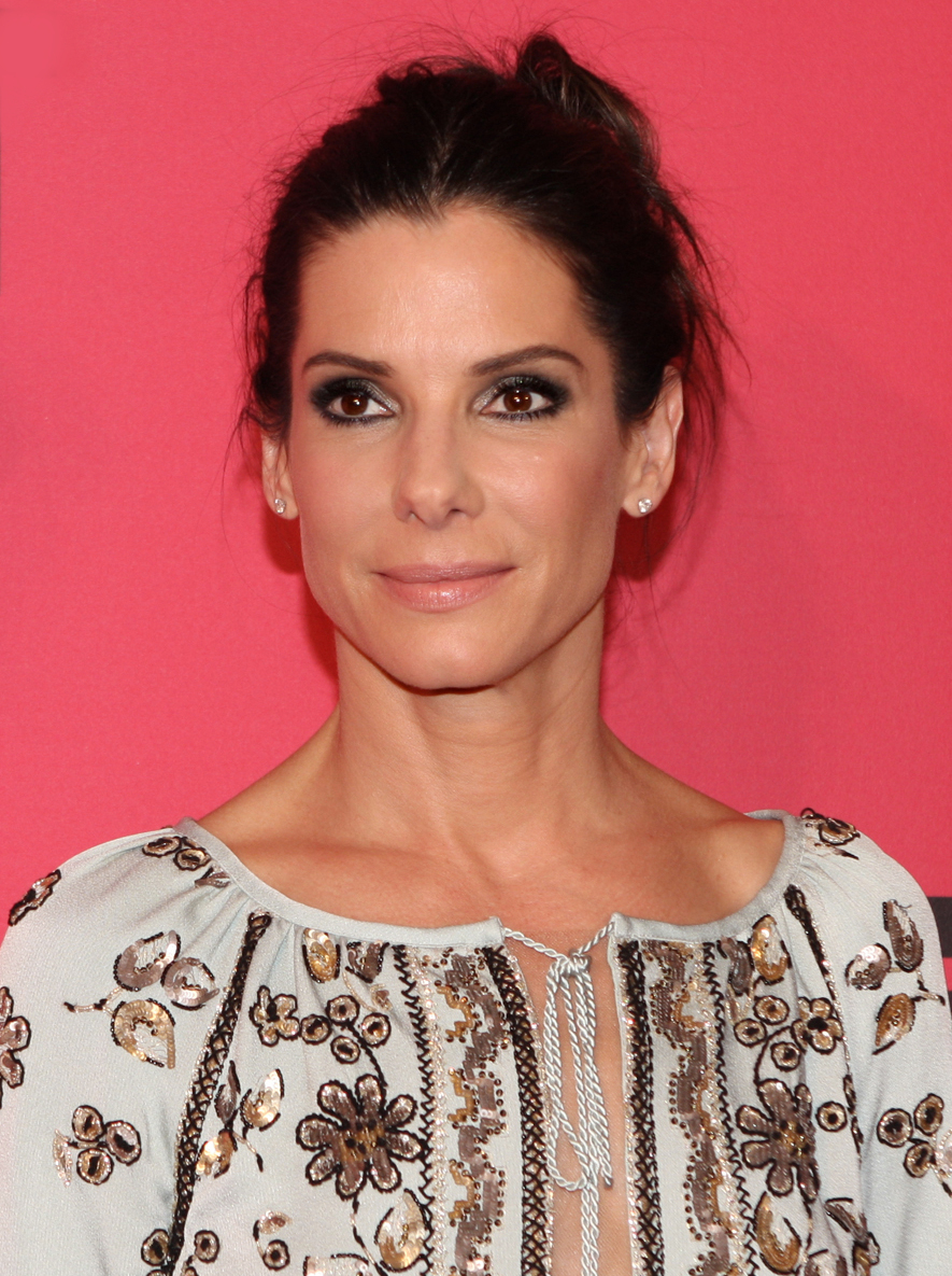 The Heat red carpet movie premiere in Sydney, Australia with Sandra Bullock - 2nd July 2013... Sandra Bullock, a good looking 48-year is in town to promote her new movie, The Heat. Early in the day she hopped a luxury boat on Sydney Harbour to enjoy our city. Event Cinemas in George Street says Bullock and Melissa McCarthy playing detectives in a cop comedy. Bullock plays successful, but highly highly strung FBI special agent Sarah Ashburn and is partnered with tough Boston cop Shannon Mullins (McCarthy). The girls are after a drug boss... of course. Early reviews and box office numbers demonstrate that Bullock's latest movie will be a thumbs up with fans and movie execs. The action-comedy grossed $US40 million ($43.7 million) - in second earnings place - in its opening weekend. Plot Outline: Uptight FBI Special Agent Sarah Ashburn (Sandra Bullock) and foul-mouthed Boston cop Shannon Mullins (Melissa McCarthy) couldn’t be more incompatible. But when they join forces to bring down a ruthless drug lord, they become the last thing anyone expected: buddies. From Paul Feig, director of “Bridesmaids.” Cast... Sandra Bullock as FBI Special Agent Sarah Ashburn Melissa McCarthy as Detective Shannon Mullins Dan Bakkedahl as DEA Agent Craig Demián Bichir as Hale Tom Wilson as Captain Woods Michael Rapaport as Jason Mullins Marlon Wayans as Levy Tony Hale as The John Taran Killam as Adam Nathan Corddry as Michael Mullins Kaitlin Olson as Tatiana Bill Burr as Mark Mullins Michael McDonald as Julian Lance Norris as Scruffy Bar Patron Jamie Denbo as Beth Jessica Chaffin as Gina Steve Bannos as Wayne Raw Leiba as Paint Factory Henchman Joey McIntyre as Peter Mullins Paul Feig as Doctor Websites The Heat 20th Century Fox Eva Rinaldi Photography